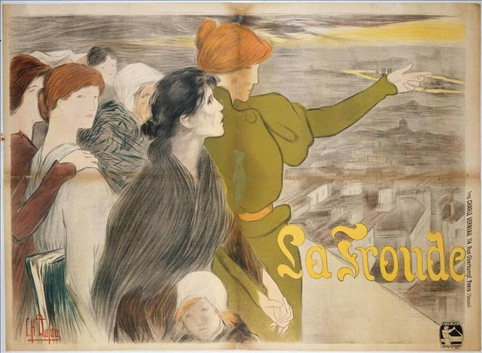 Poster for Le Fronde